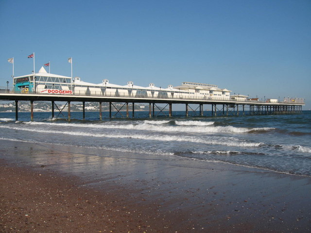 Paignton Pier. Work started on Paignton Pier in 1878 and was completed the following year. The 780ft (236m) pier, with its customary grand pavilion at the seaward end, was opened to the public for the first time in June 1879. In 1919 the pier-head and some other buildings were destroyed in a fire. These were never replaced and a period of decline followed. In 1980 the fortunes of Paignton Pier took a turn for the better when a major redevelopment project was undertaken. This included the widening of the shoreward end to ensure a uniform neck, and the construction of the rather stylish pavilions that remain today. 578819 For more information about Paignton Pier click on